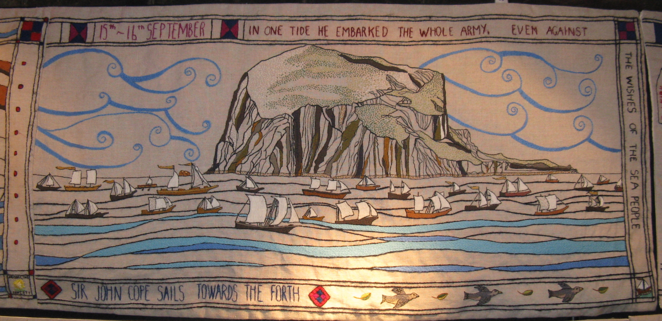 Battle of Prestonpans Tapestry - detail